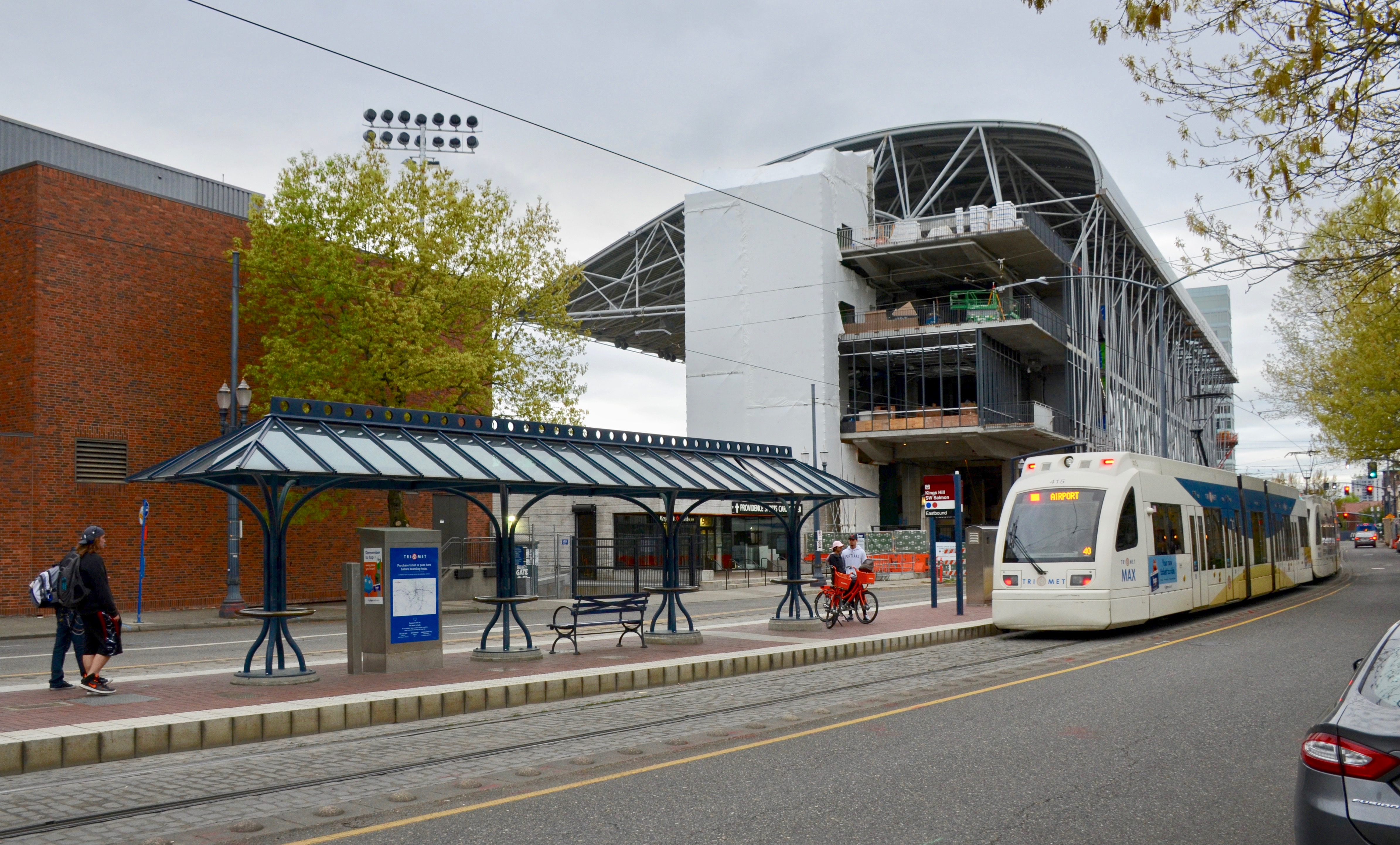 The Kings Hill/Salmon St. MAX station in Portland, with an eastbound Red Line train pulling away. In the background, Providence Park stadium is undergoing reconstruction of its east side to expand the seating capacity. This view is from the south, from across SW 18th Avenue just north of Salmon Street.